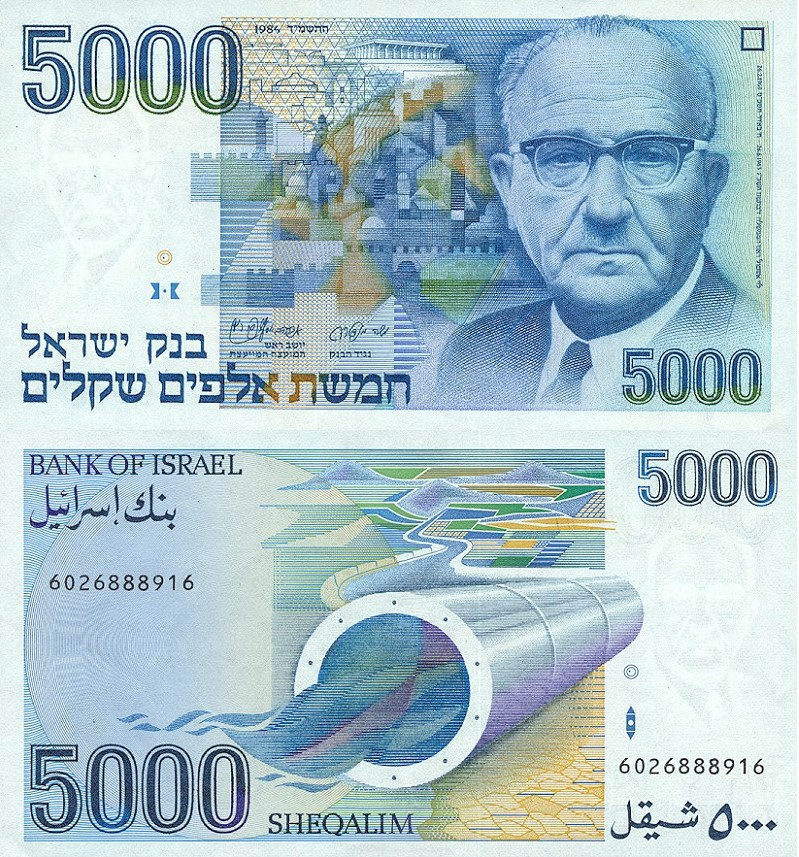 Obverse & Reverse side of a 5000 sheqalim bill, paper.